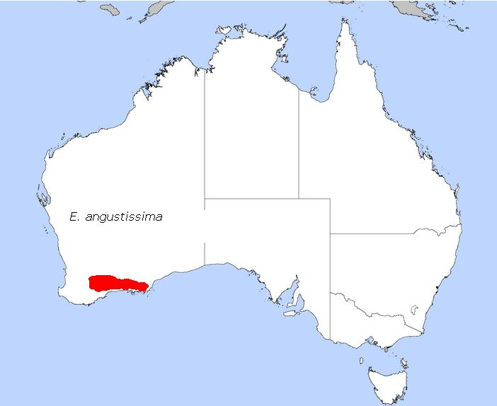 reproduction based on information provided on this map Image:E._angustissima.JPG, Basis map is based on Image:Australia location map.png recoloured